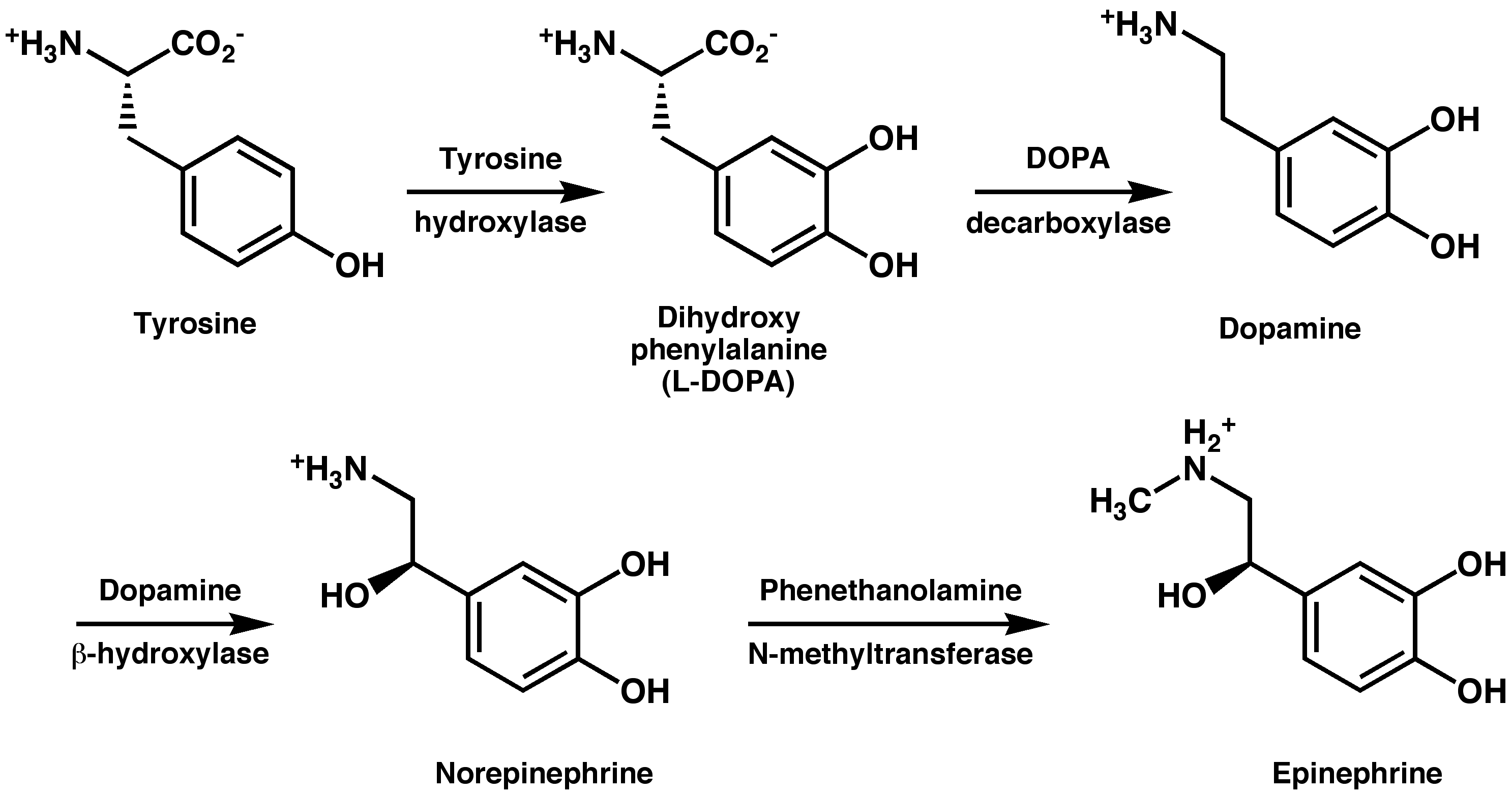 Created myself using Cambridgesoft ChemDraw